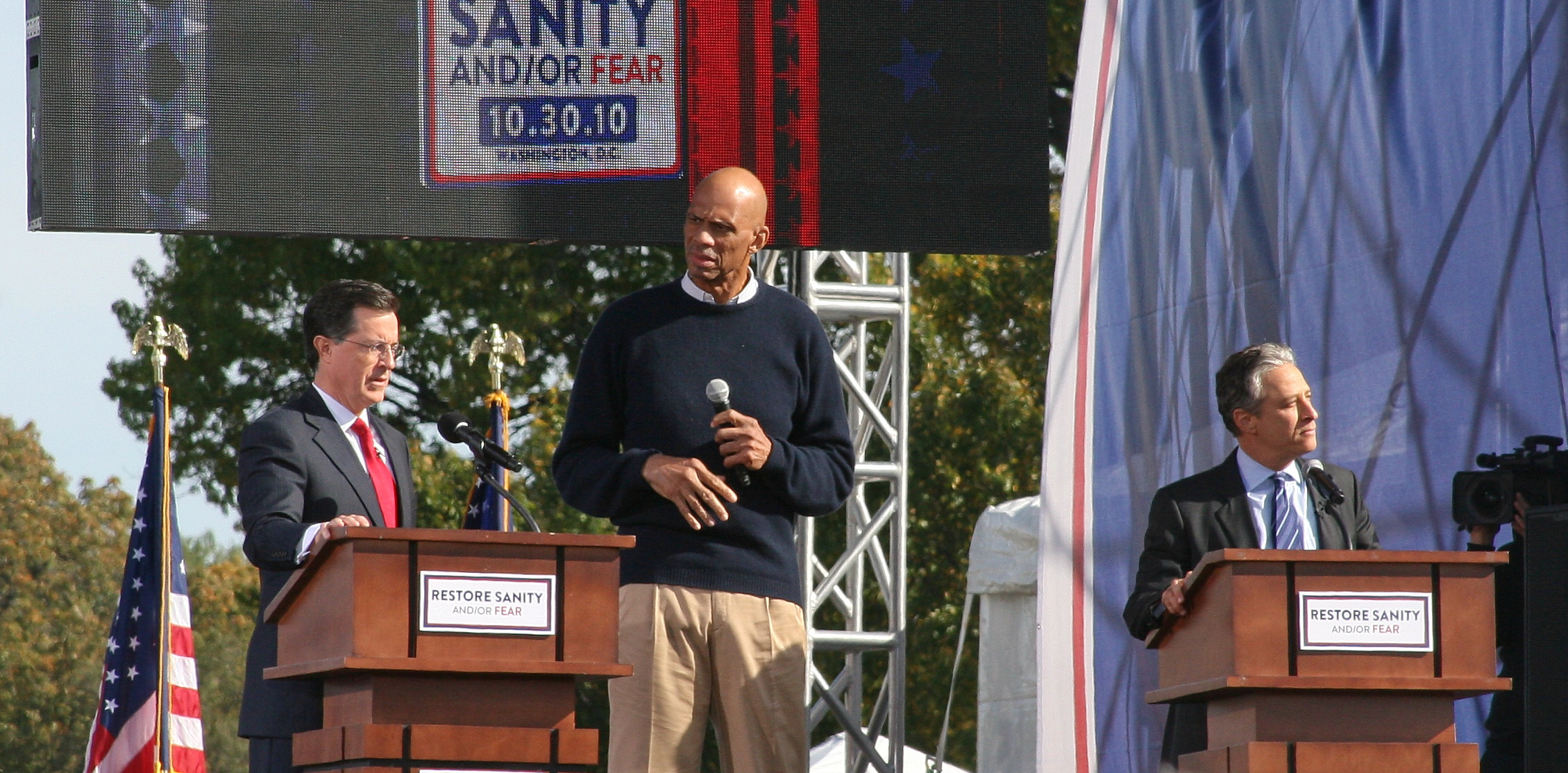 Kareem Abdul-Jabbar (center), Stephen Colbert to the left and Jon Stewart to the right.